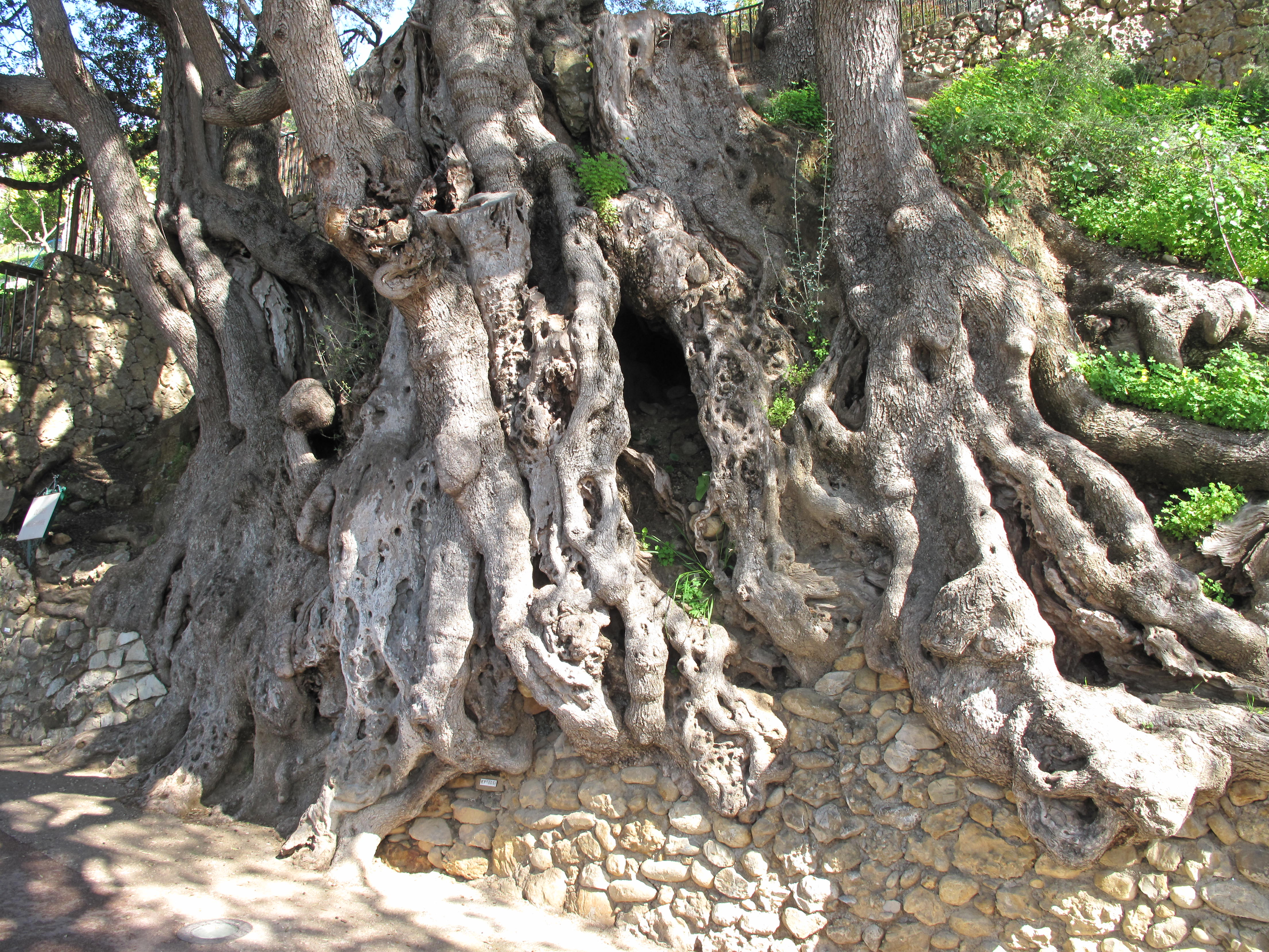 Close-up of the trunk of the millenium olive tree in Roquebrune-Cap-Martin, France